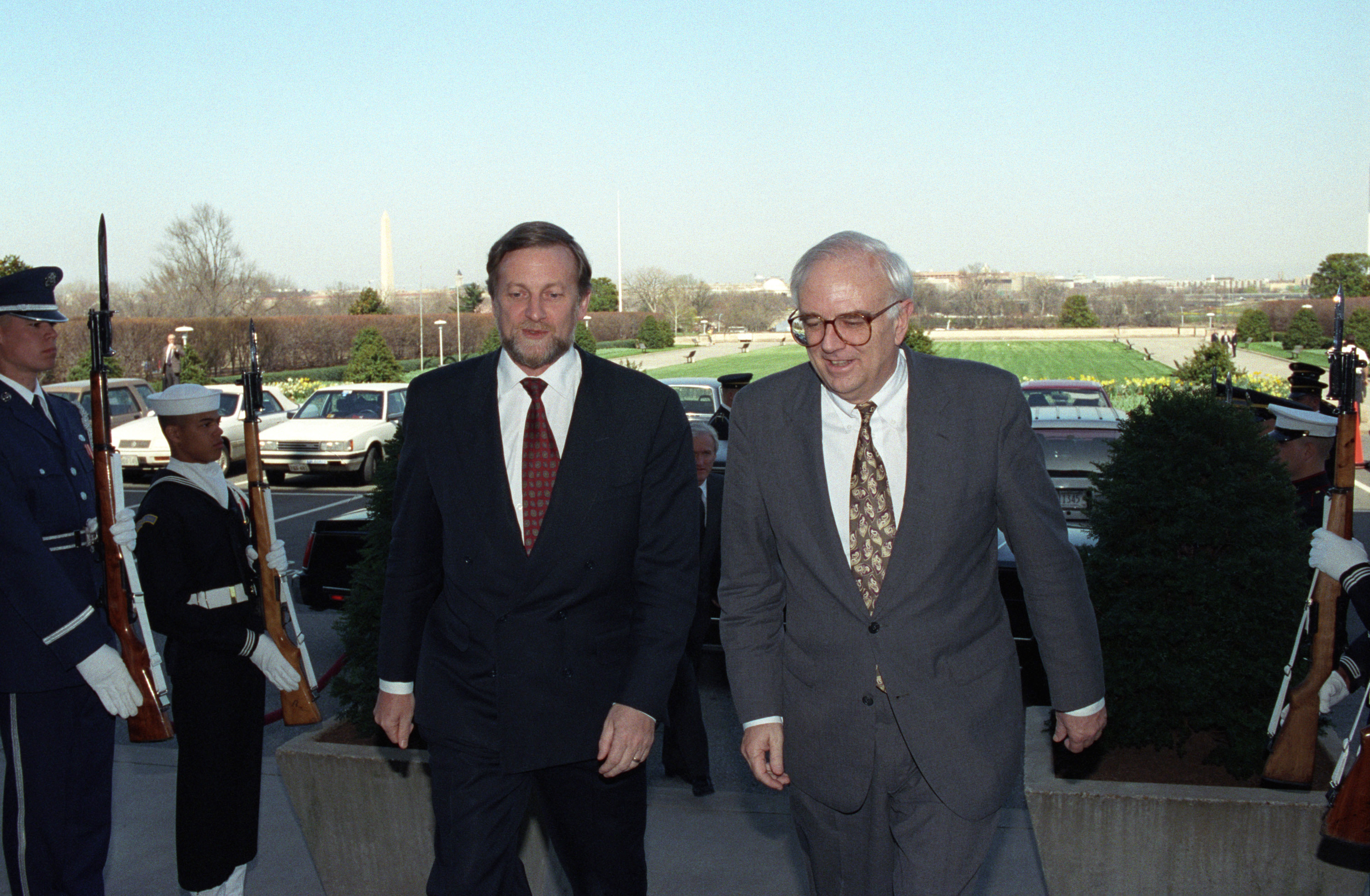 Gareth Evans (left) with Les Aspin in April 1993 - source